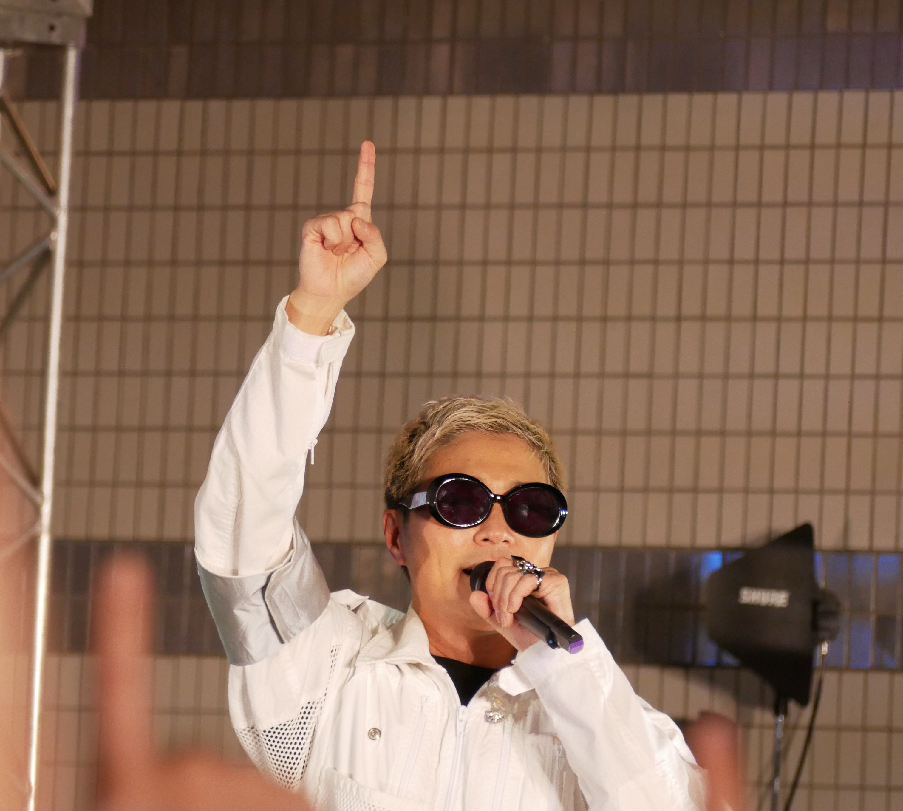 m-flo's Verbal Panasonic Lumix DMC-GX7 Mark II